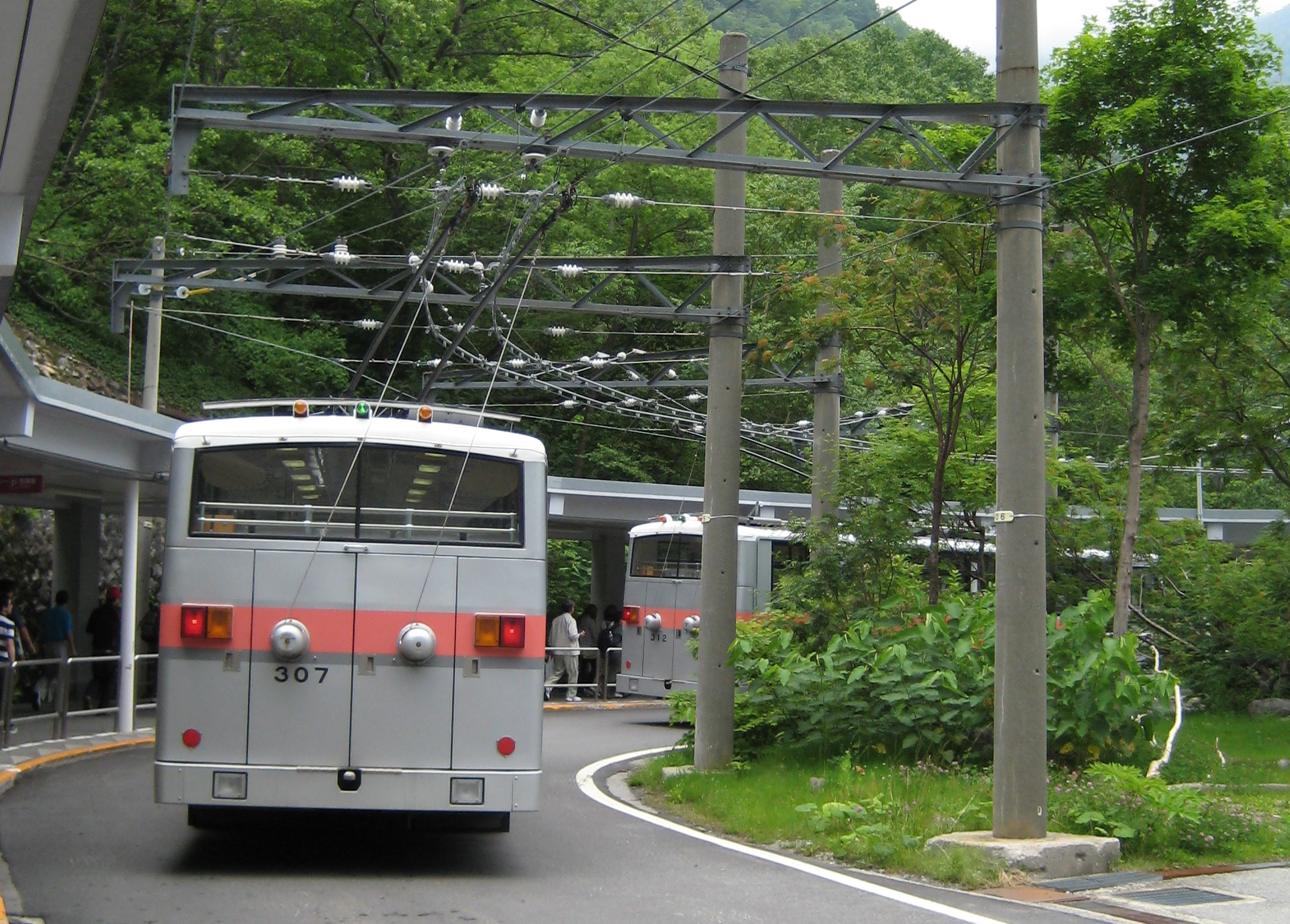 Trolleybuses returning to the departure area at Ogizawa Station after having unloaded at the arrivals area